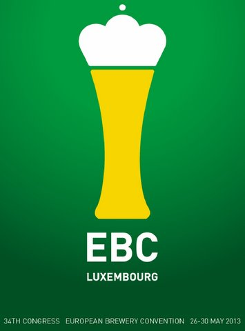 This is the logo of the EBC congress (European Brewery Convention) 2013 Luxembourg